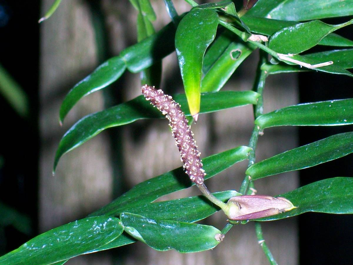 Pothos longipes Inflorescence at the RBG, Sydney